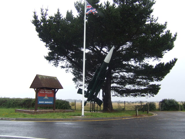 47th Regiment, Royal Artillery; Baker Barracks The sign and the stock-in-trade of the base on Thorney Island namely anti-aircraft artillery.